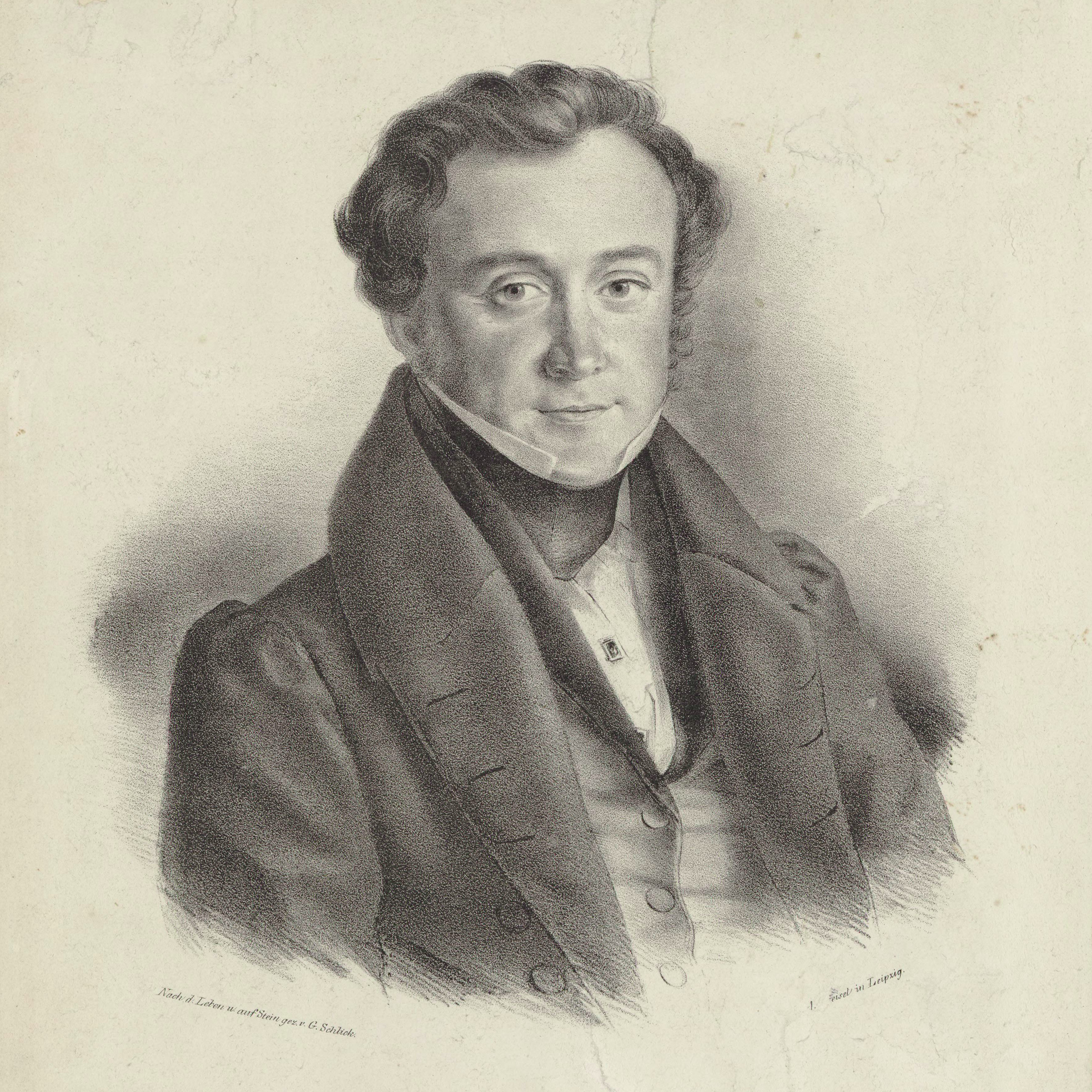 Depicted person: Jan Kalivoda